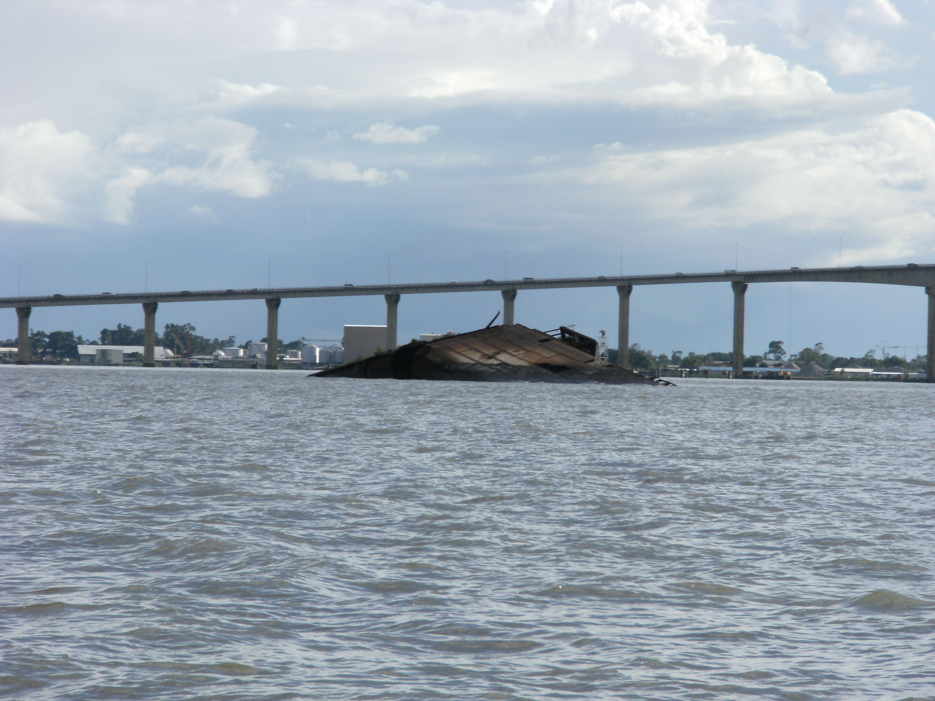 Suriname River, with Goslar wreck and Jules Wijdenbosch Bridge.